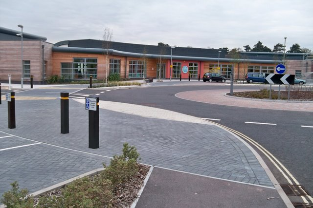 Community Hospital - Locks Heath